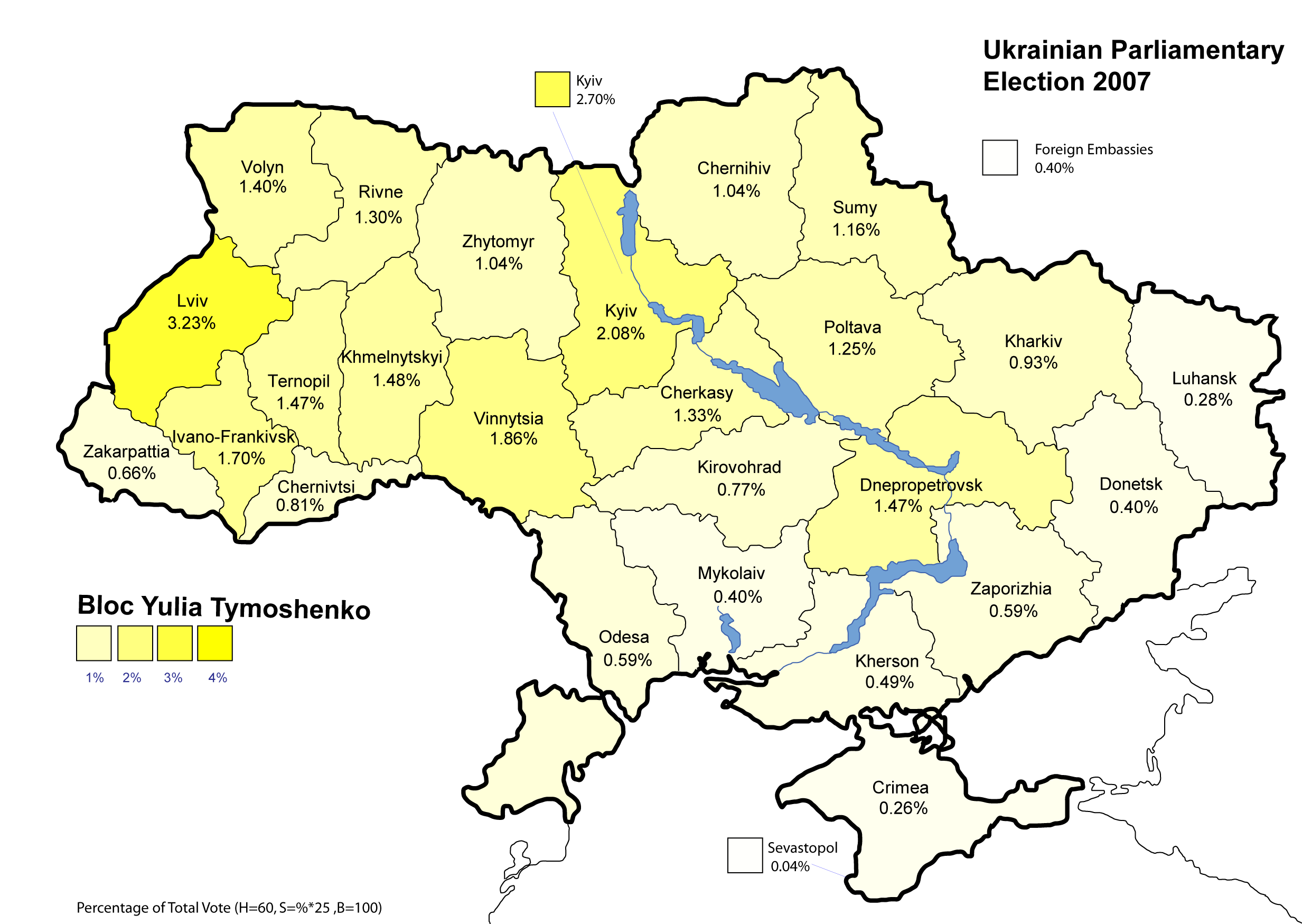 graphical representation of the 2007 Ukrainian Parliamentary Election: Bloc Yulia Tymoshenko results (30.71%), one of the maps showing the top six parties support - percentage of total national vote. All data is derived from the published official results provided by the Ukrainian Authority (See links and data tables below)